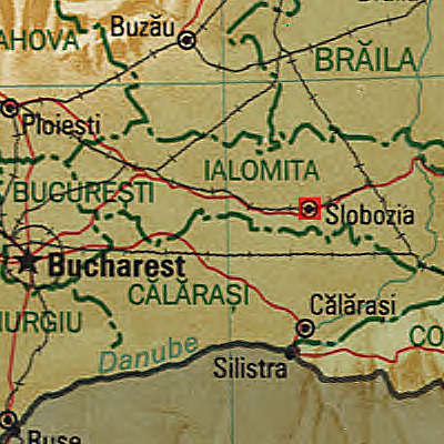 Map of Slobozia Municipality, Romania.